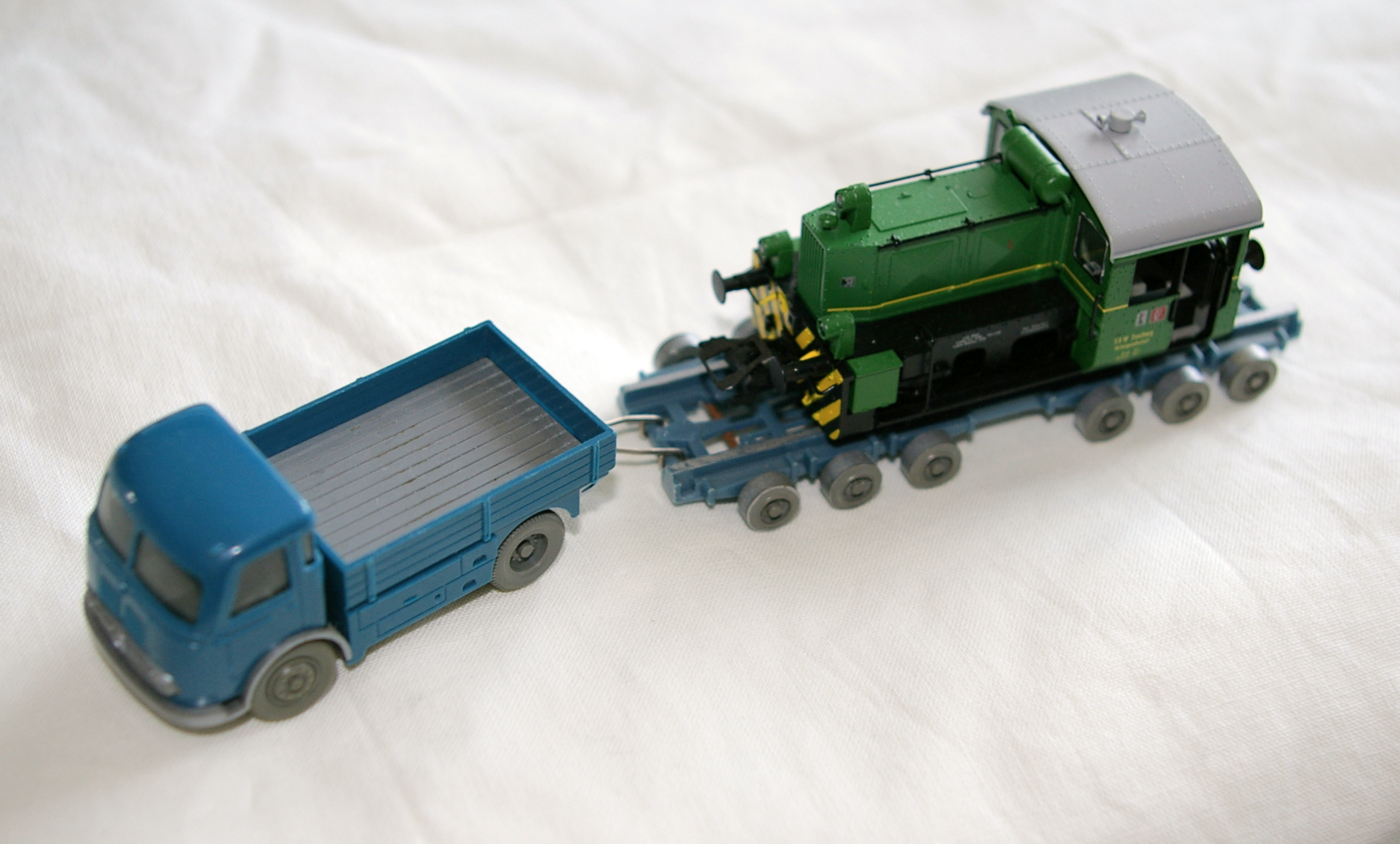 Model of a Culemeyer heavy trailer (railway vehicle transporter on the road) with a Mercedes front wheel drive (Wiking, 1960s) and Köf II locomotive (Märklin Digital, 2007)